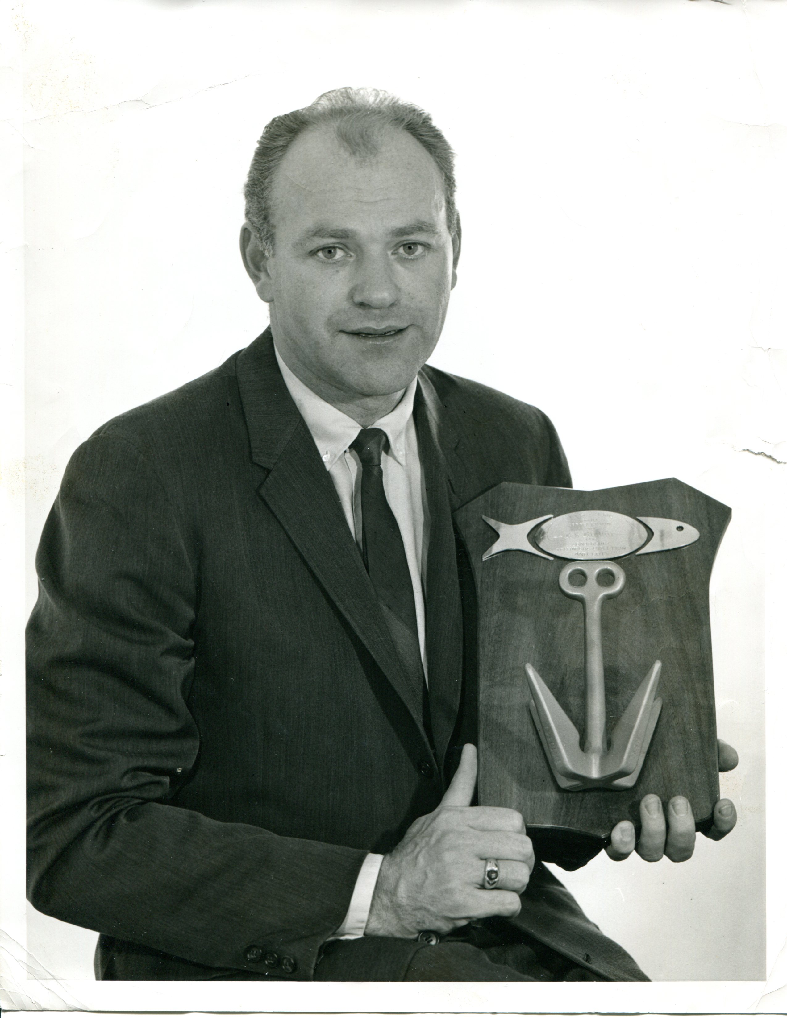 Bert Bulkin with the recovery hook from the second CORONA space-reconnaissance mission, probably taken in or near Palo Alto, California about 1960